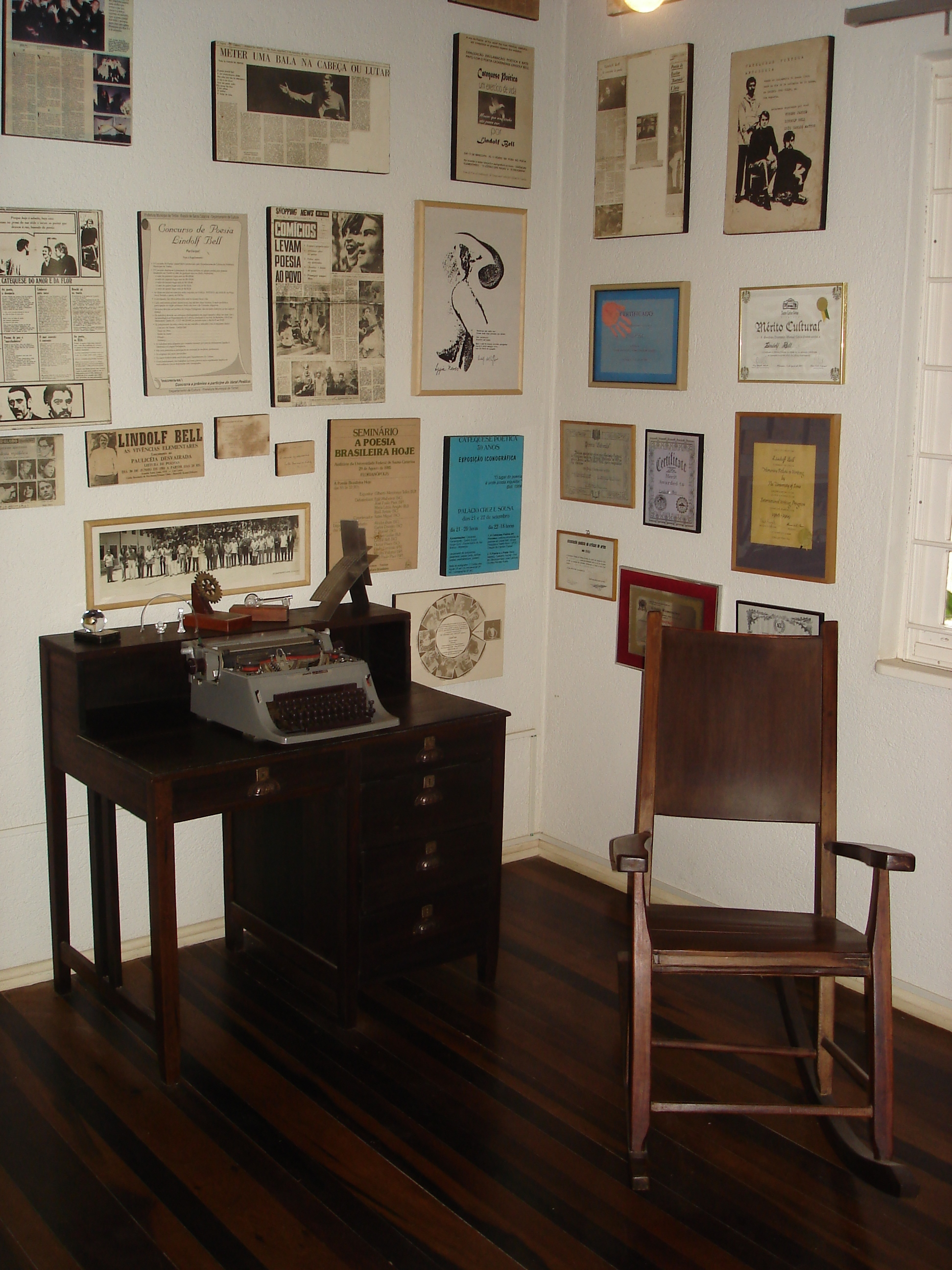 Desk Lindolf Bell